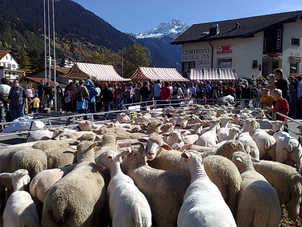 Sheep shearing in Savognin (Grison, Switzerland)